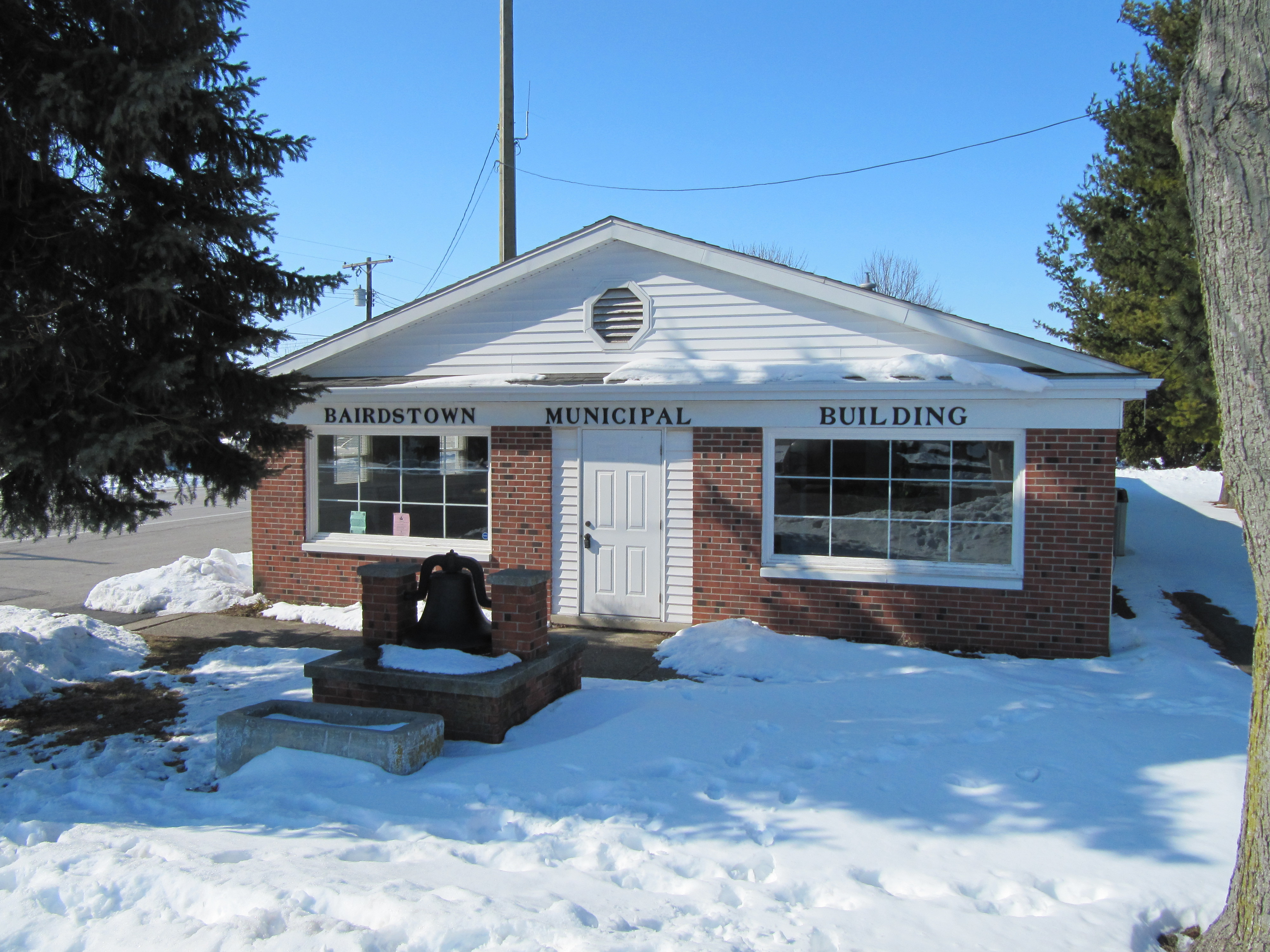 Photograph of the municipal buildingen of the village of Bairdstown, Ohioen, taken at street level from near the intersection of West Main and North Randolph streets.